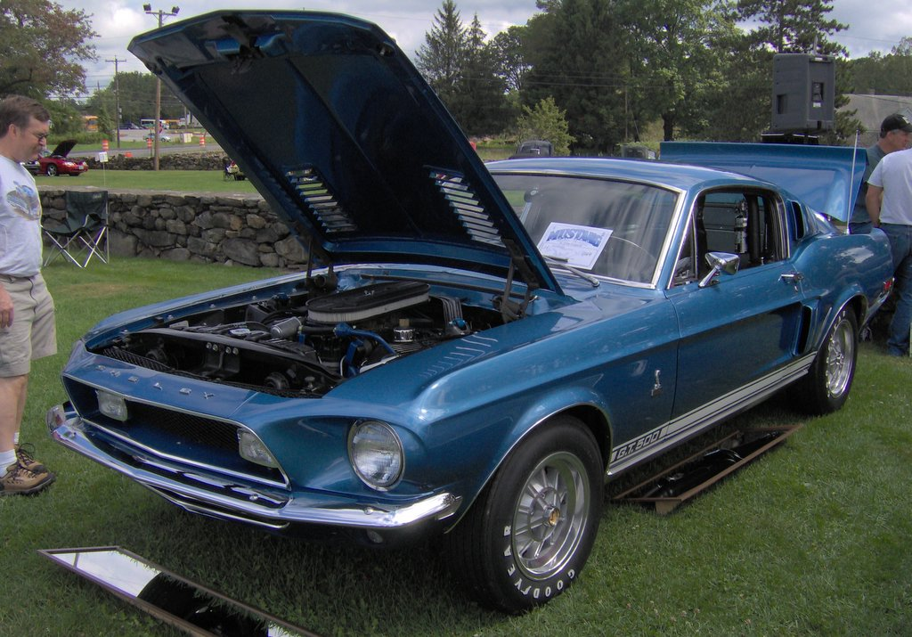 1968 Shelby GT500